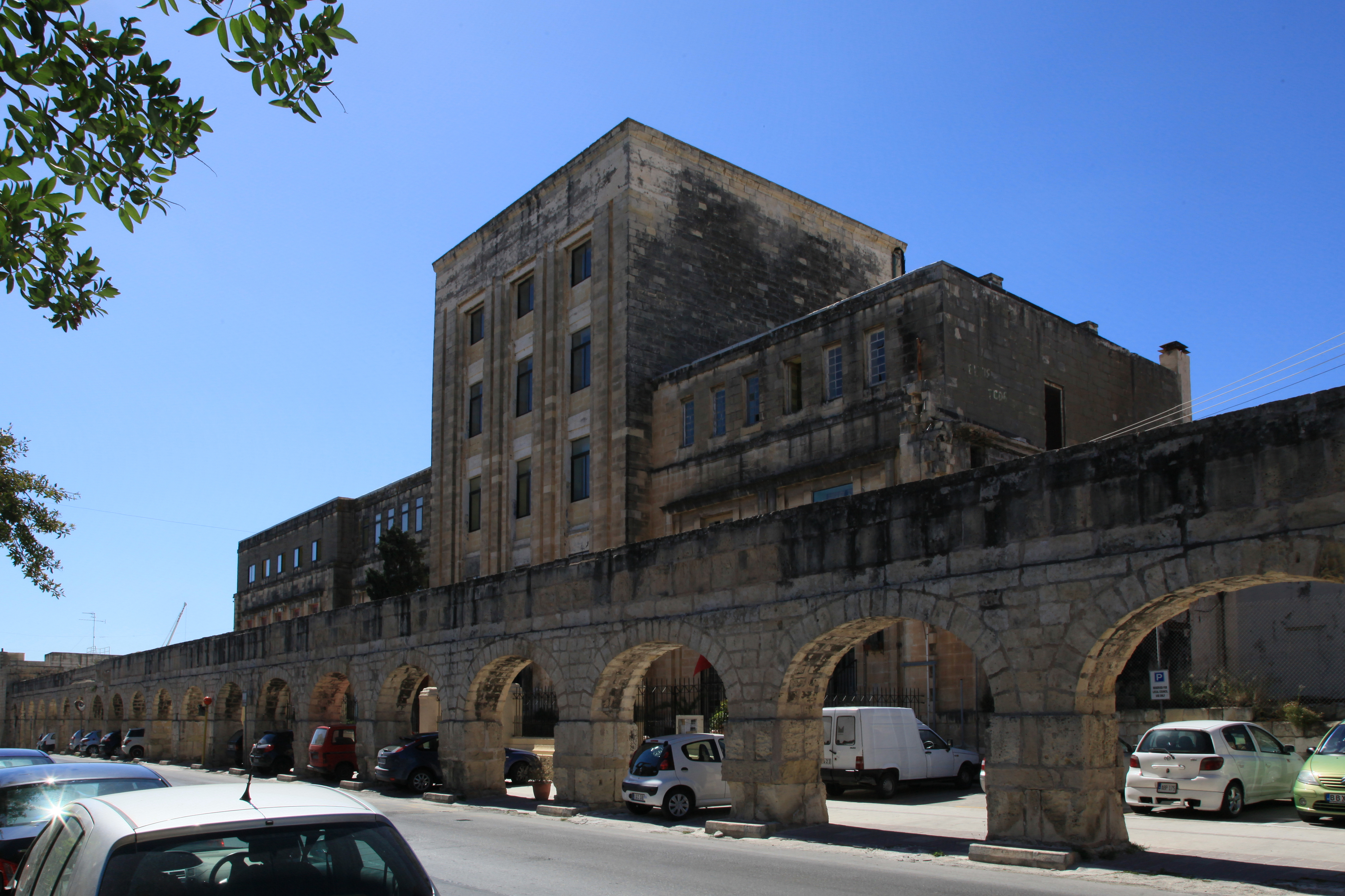 Town hall and Wignacourt Aqueduct at Triq il-Kbira San Ġużepp in Santa Venera, Malta